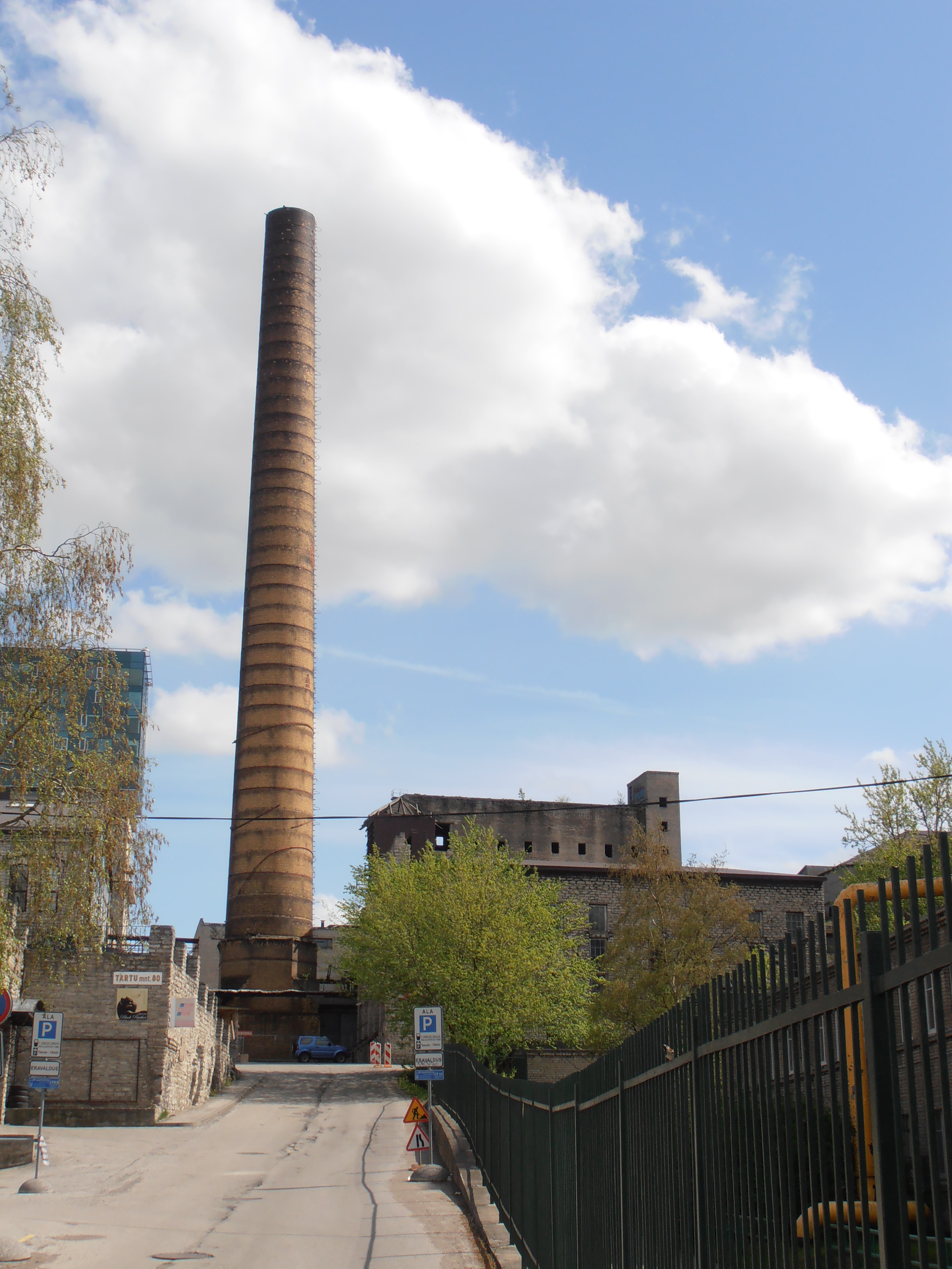 Chimney of former Pulp factory in Tallinn 19 May 2012